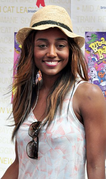 Actress Patina Miller attends 13th Annual Broadway Barks Benefit on July 9, 2011 at Shubert Alley in New York City. (Photo © Nick Stepowyj)